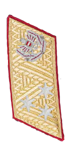 Rank Patch of the Austrian federal police